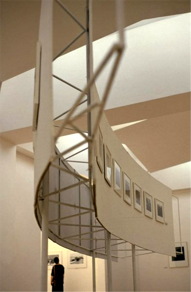 First Photography Biennale, 1986